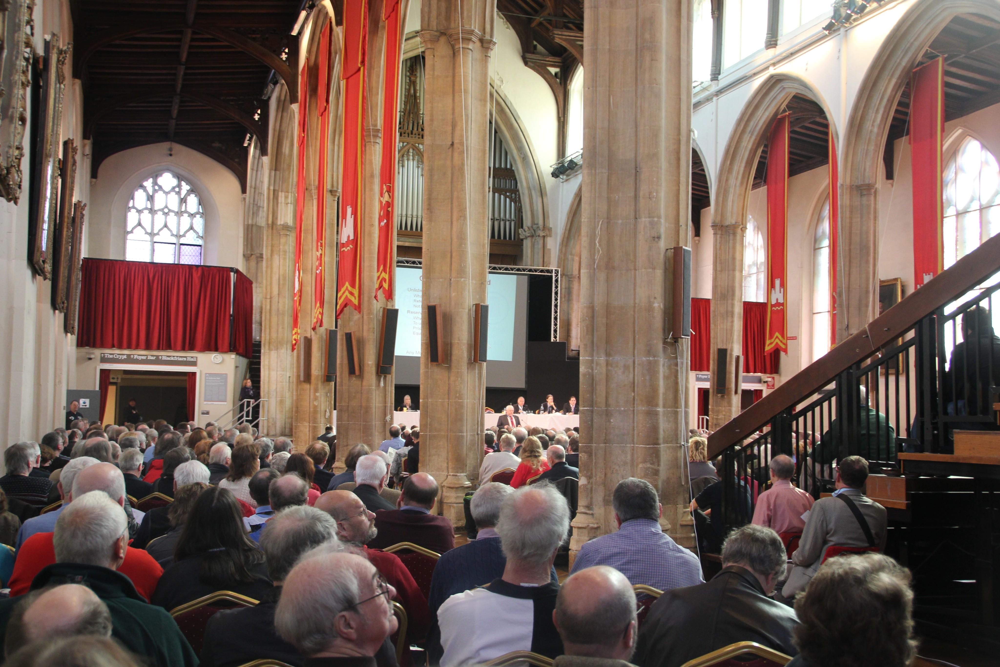 St. Andrew's Hall